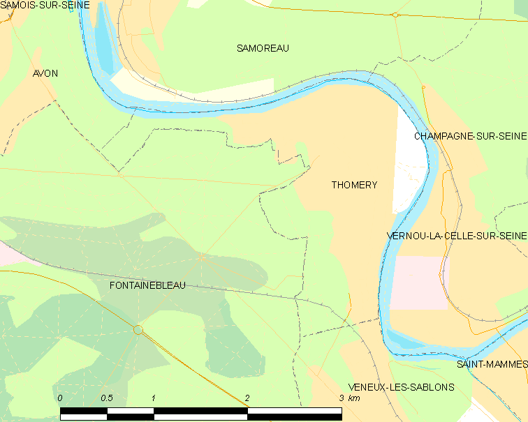 Map of French municipality Thomery